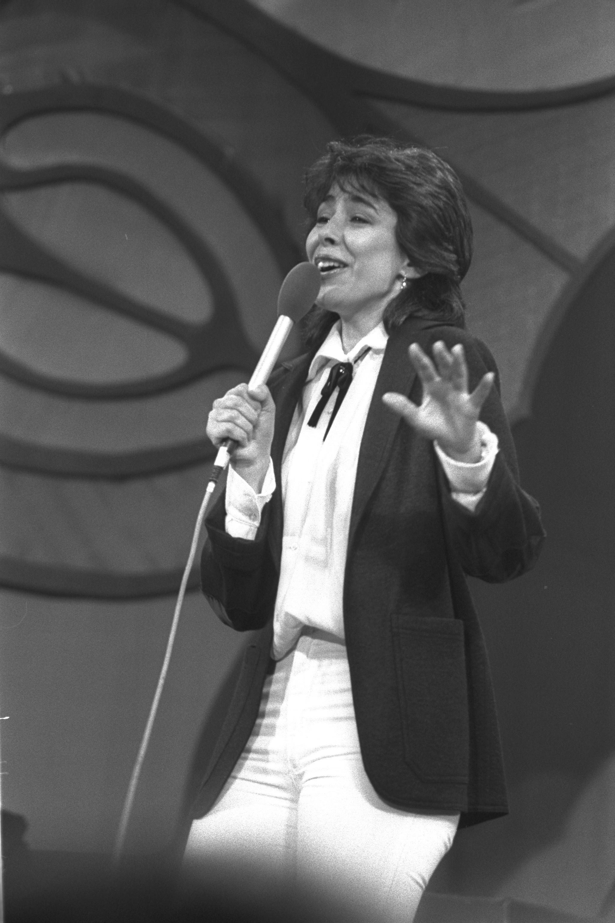 Singer Gali Atari in the Teletrom held at the Mann Auditorium in Tel Aviv. גלי עטרי בערב התרמה בתל אביב